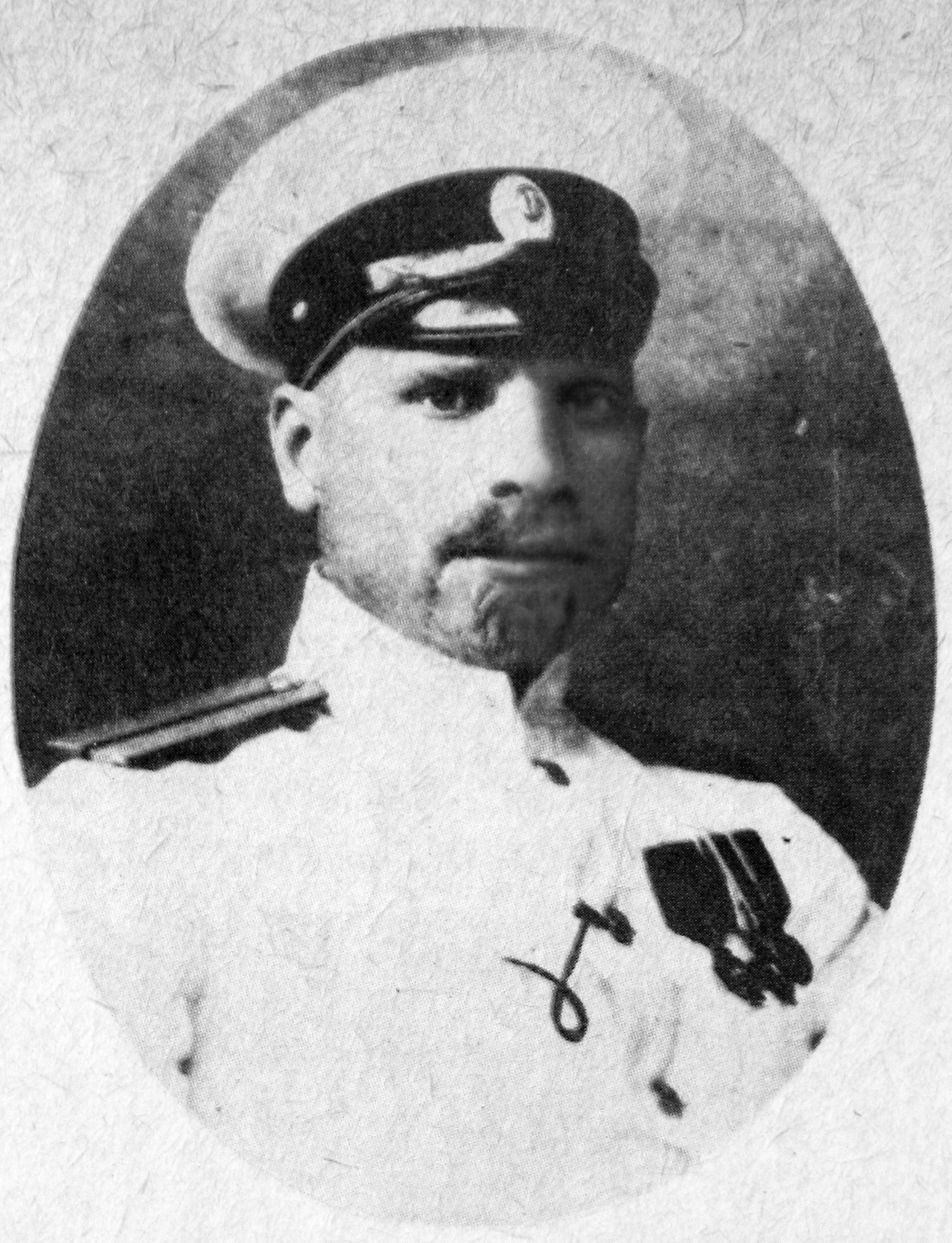 Georgy Sedov (1877—1914), Russian Arctic explorer